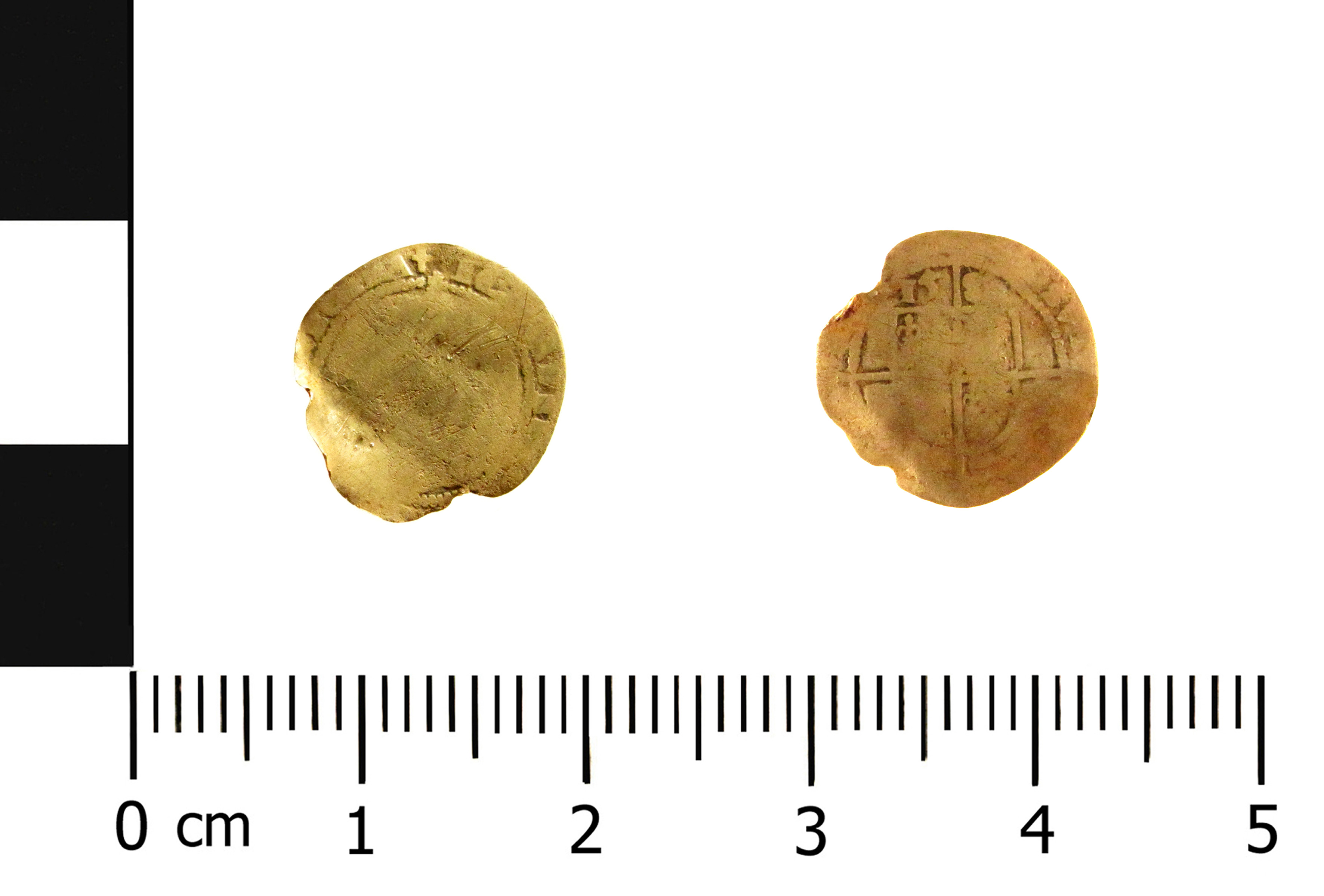 A Post Medieval Half crown of Elizabeth I (AD 1558 - 1603) second coinage dating to AD 1580-1. Initial mark: Long Cross. North 1987.